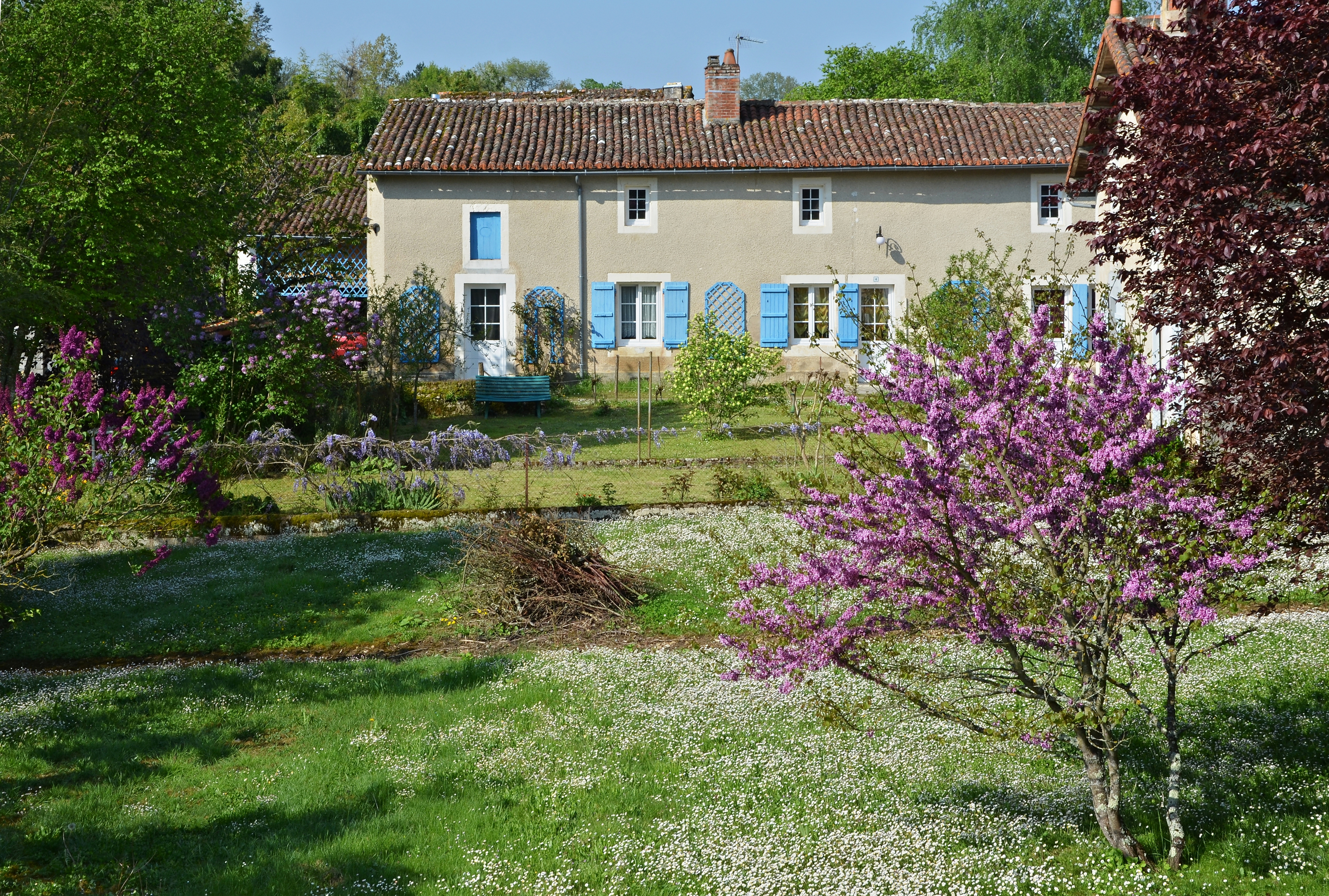 Traditional house and garden, Savigné, Vienne, France.